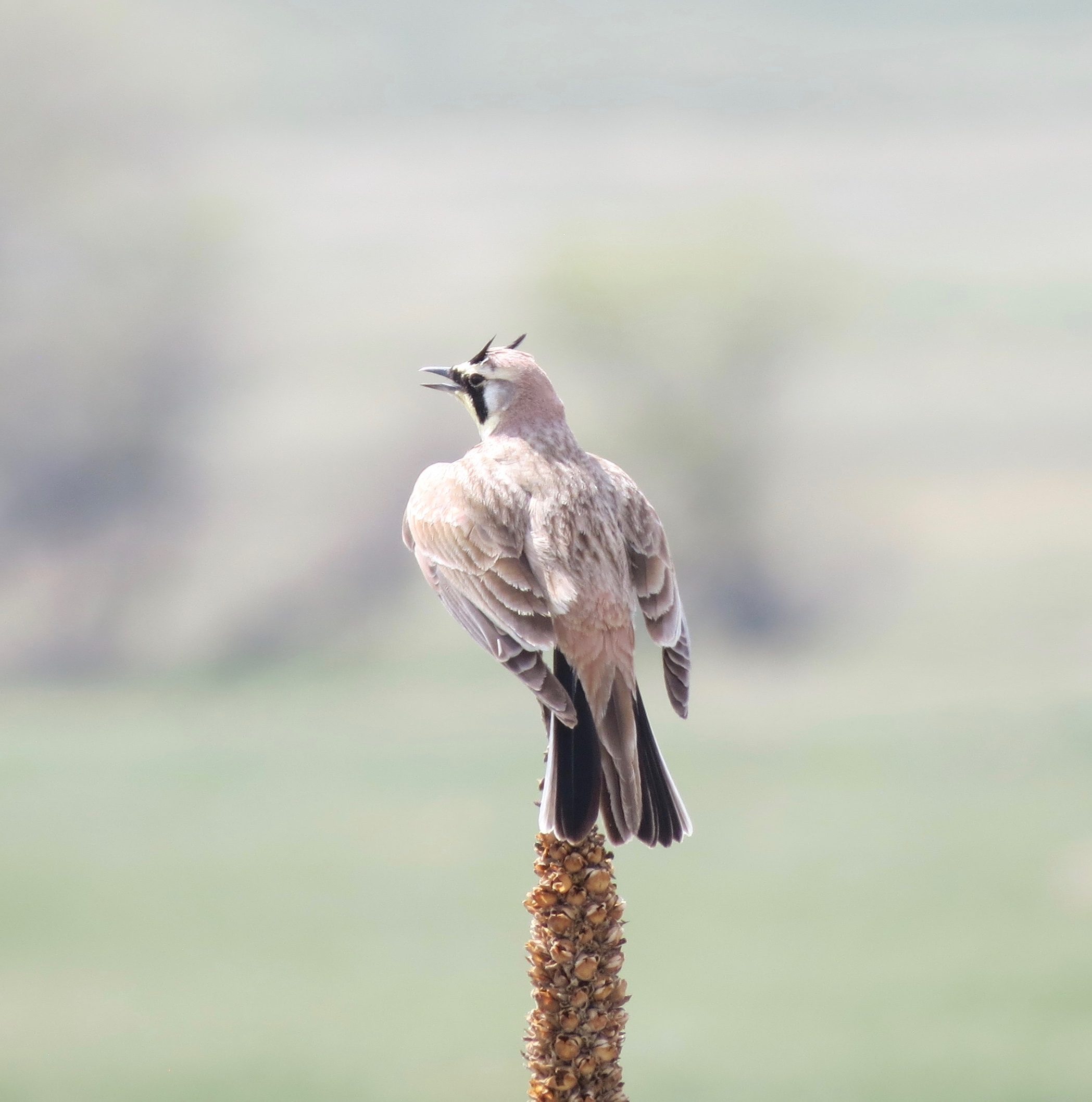 Horned lark on a seed head. Photographed at Rocky Mountain Arsenal National Wildlife Refuge